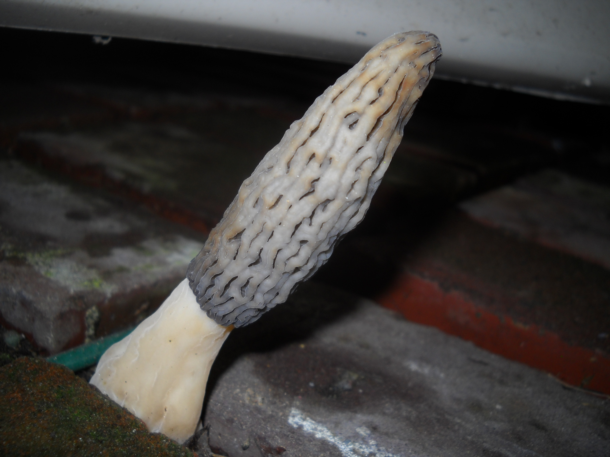 A fruit body of the morel fungus Morchella importuna M.Kuo, O’Donnell & T.J.Volk. Location: Benjamin Rose’s Homebase, Lake Forest Park, Washington, USA. "Notes: Growing from between bricks, underneath a friends deck. It was in an area where they would smoke cigarettes and store junk."